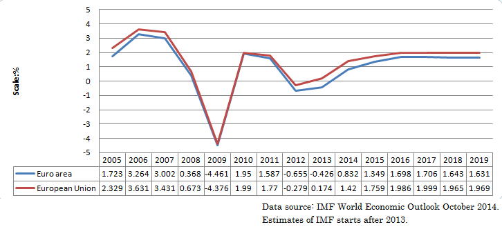 This is a graph of growth rate of EU countries and Euro zone (Growth rate of Real GDP). Data source is International Monetary Fund, World Economic Outlook Database October 2014.Estimates (of IMF) starts from 2013. The calculation is done by IMF. The calculation of average is done by myself in version 21:29, 4 November 2014. After this version, the calculation is done by IMF.